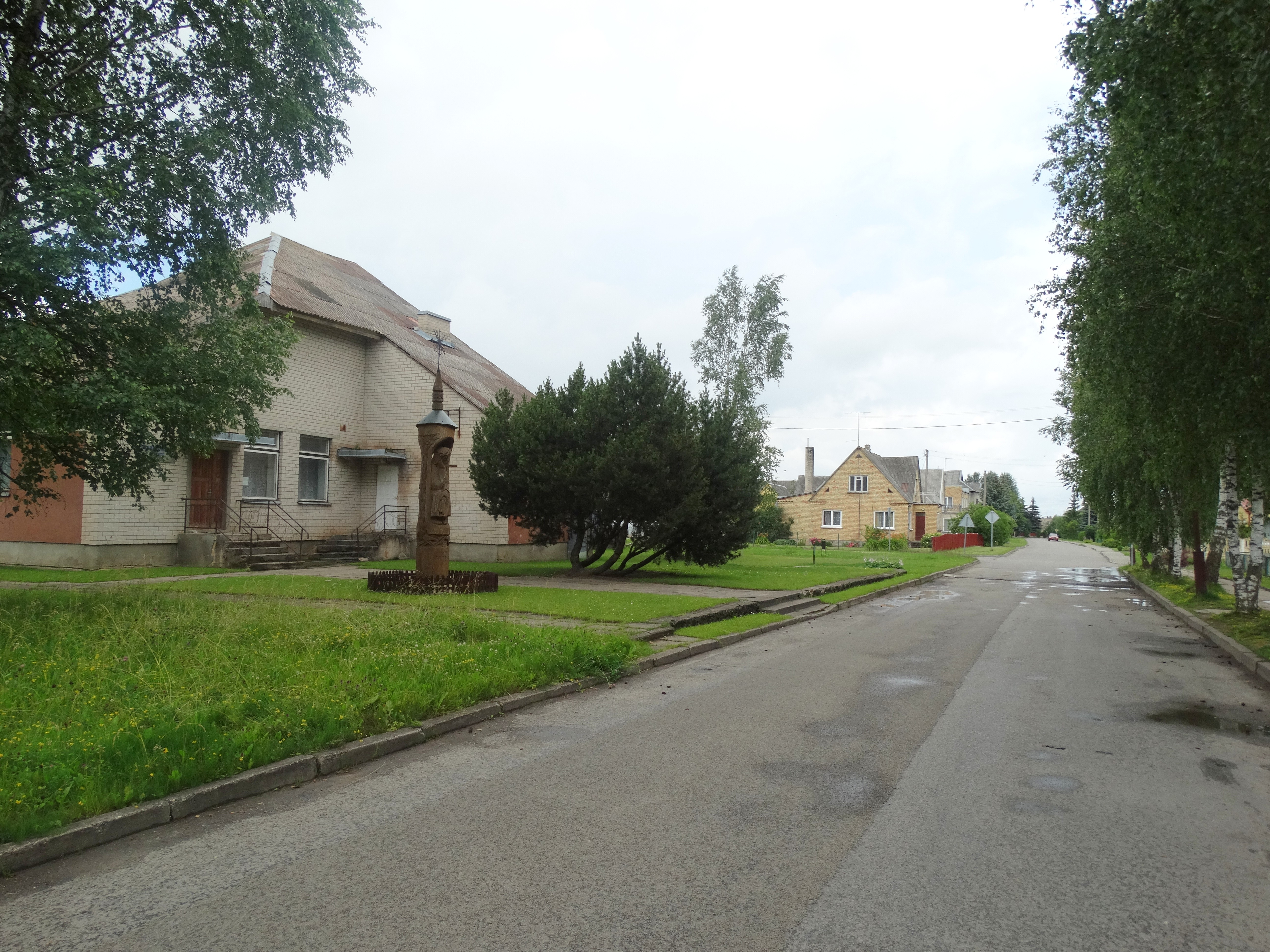 Chapel, Velžys, Panevėžys District, Lithuania